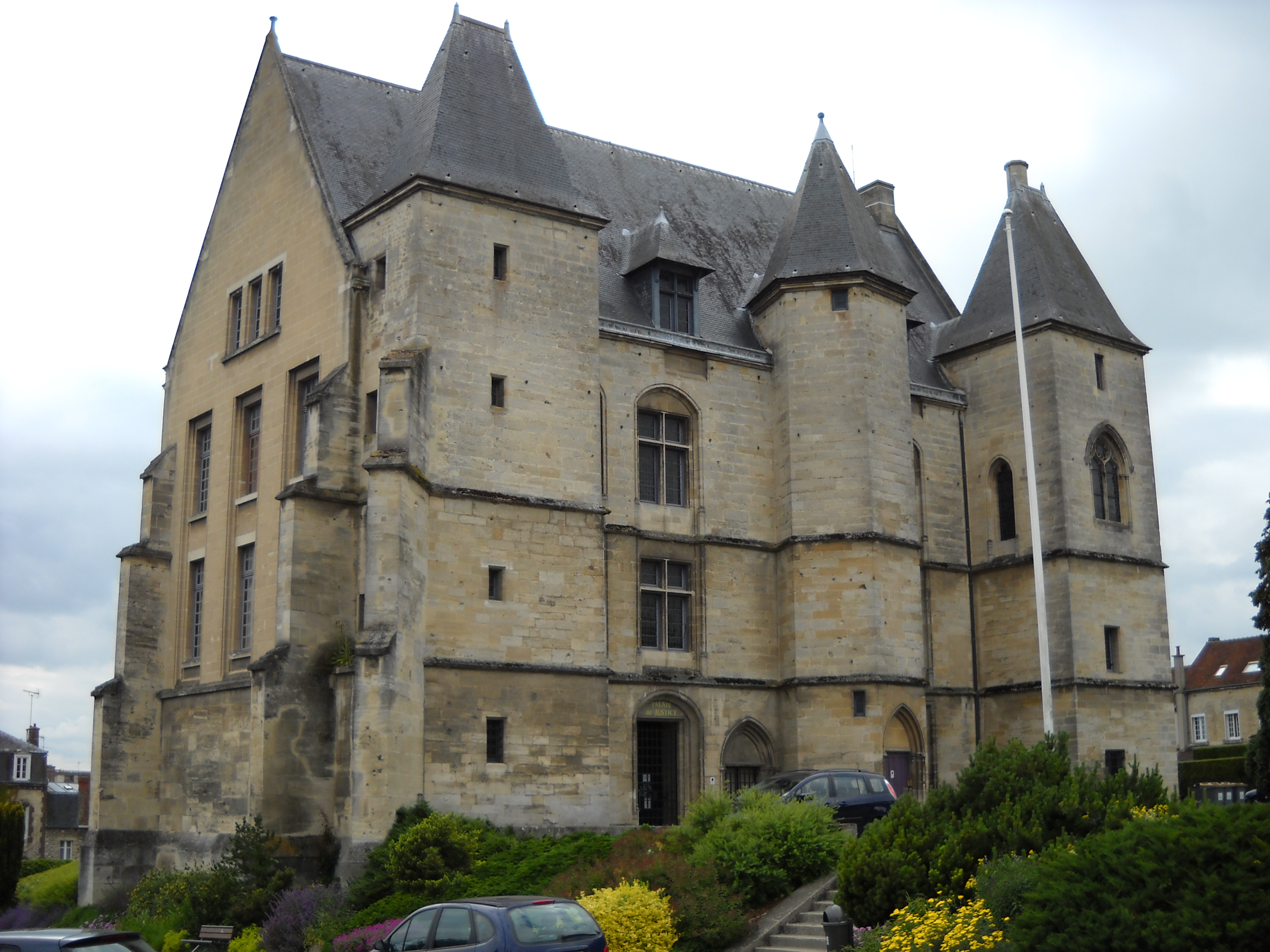 The 14th century castle of Argentan, Orne, France.